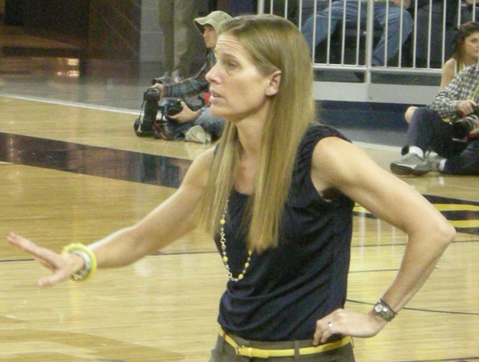 Kim Barnes Arico during the Wisconsin Badgers vs. Michigan Wolverines women's basketball game at Crisler Center in Ann Arbor, Michigan (United States). Michigan won 54–43.